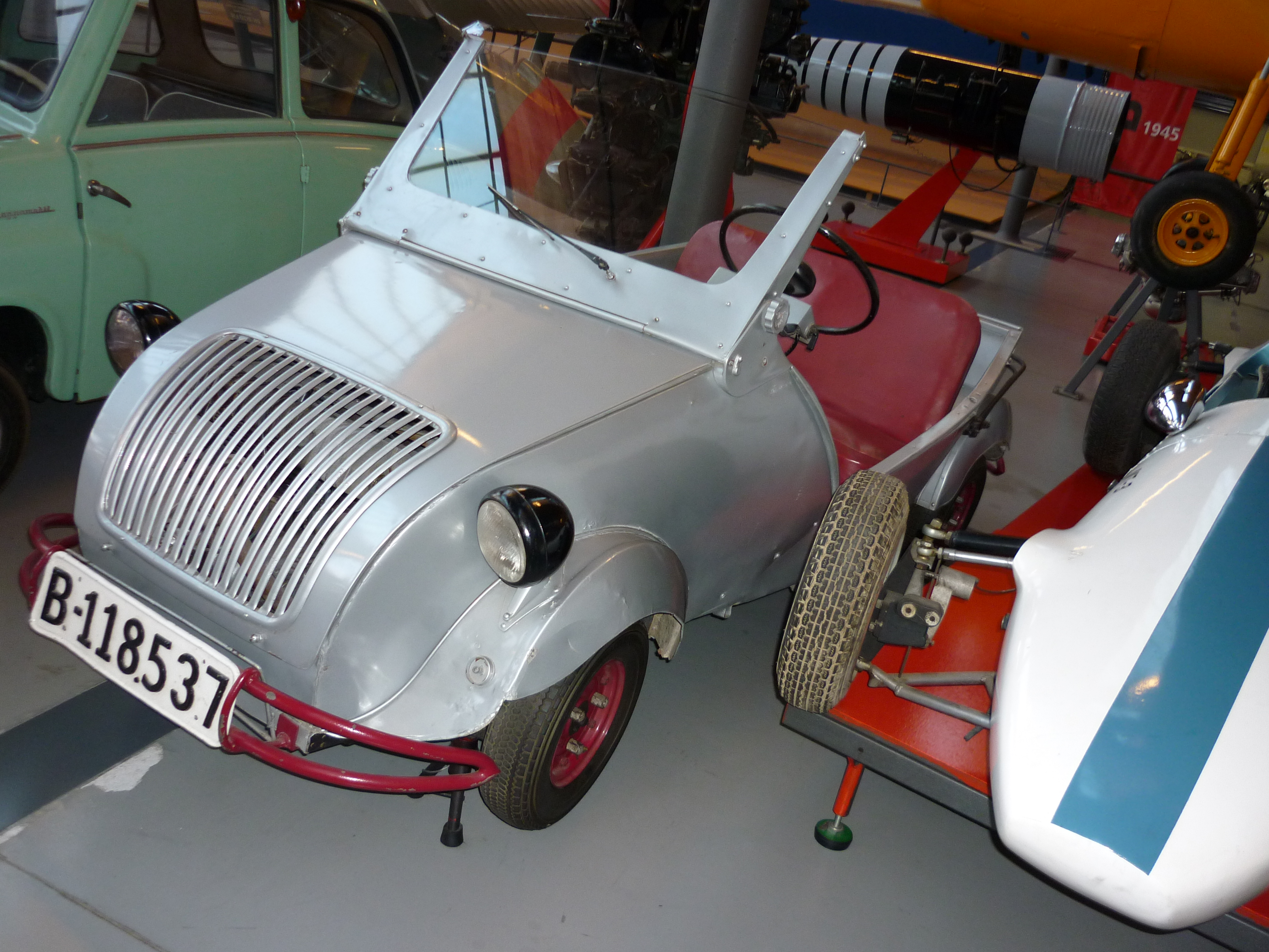 Biscuter 100 (1954)